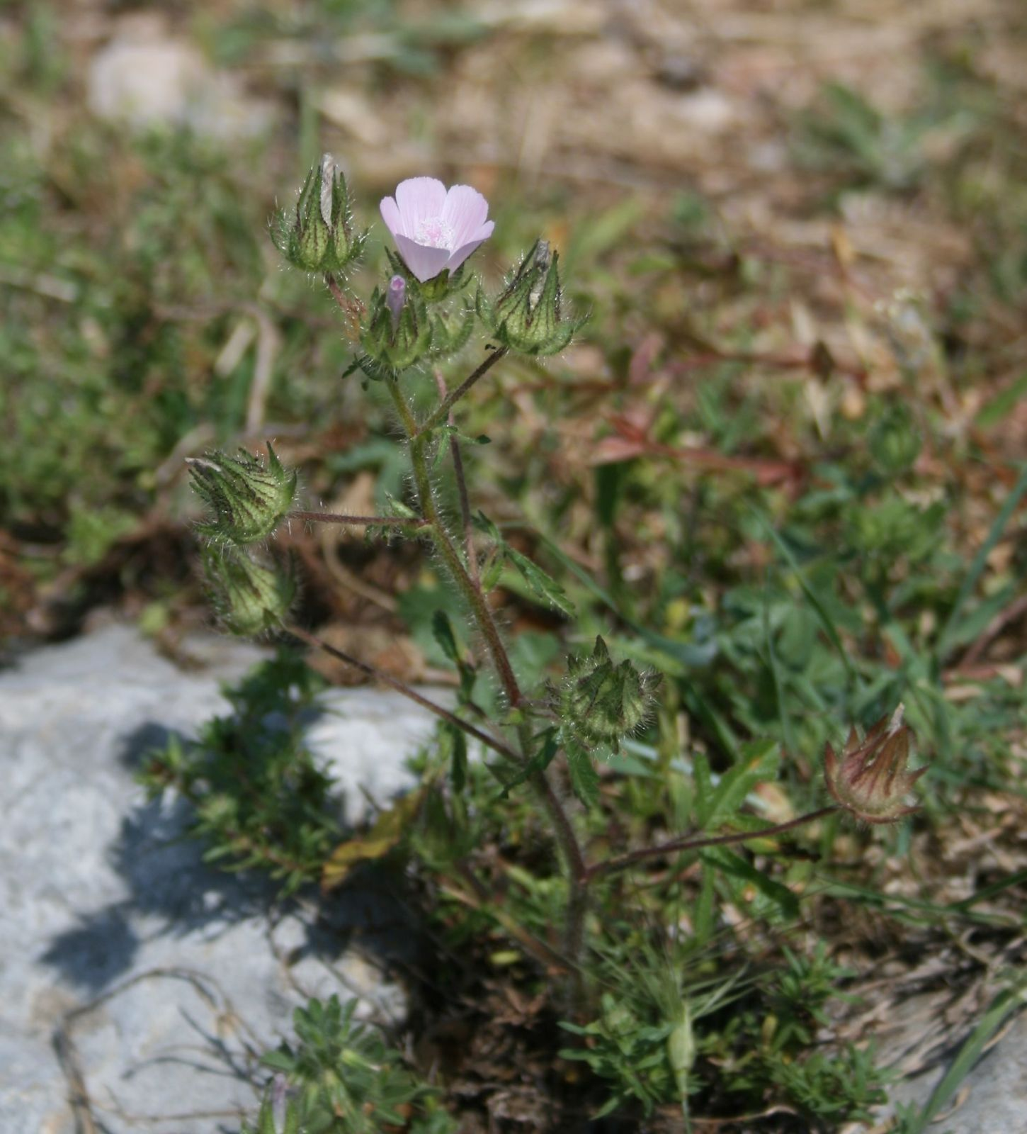 Althaea hirsuta, Malvengewächse (Malvaceae) - Italien/Italia/Italy: Apulien/Puglia, Prov. Foggia, südöstlich unter Rignano Garganico